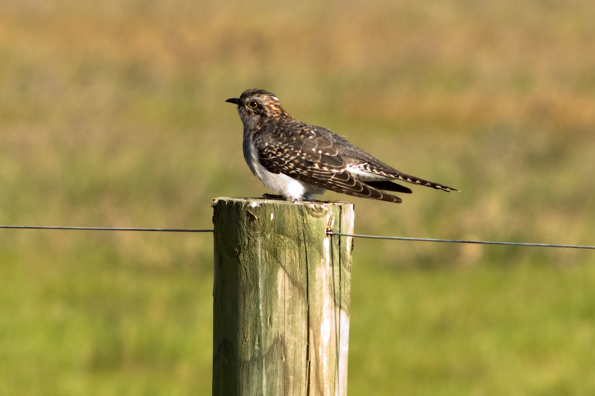 Pallid Cuckoo [female] (Cuculus pallidus), Point Cook, Victoria